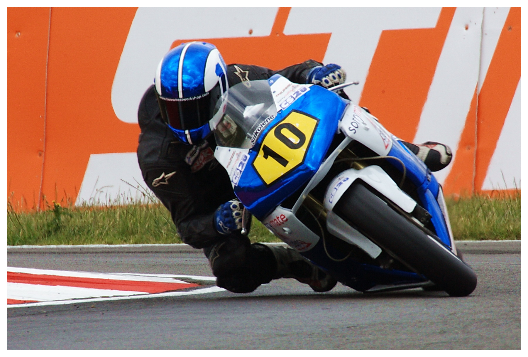 Jenny Tinmouth ~ Honda (Fuchs-Silkolene British Supersport Championship)